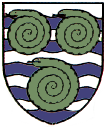 the coats of arms of Whitby Town Council, which features three green ammonites... Used this (archived here) and this (archived here) for reference.